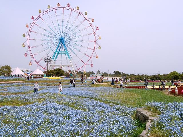 Uminonakamichi Seaside Park in Fukuoka City, Japan